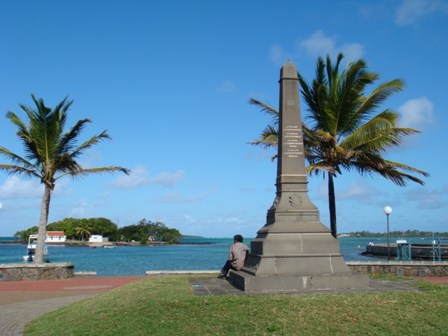 A Monument located in the coastal promenade in Mahébourg, Mauritius, Mahébourg.